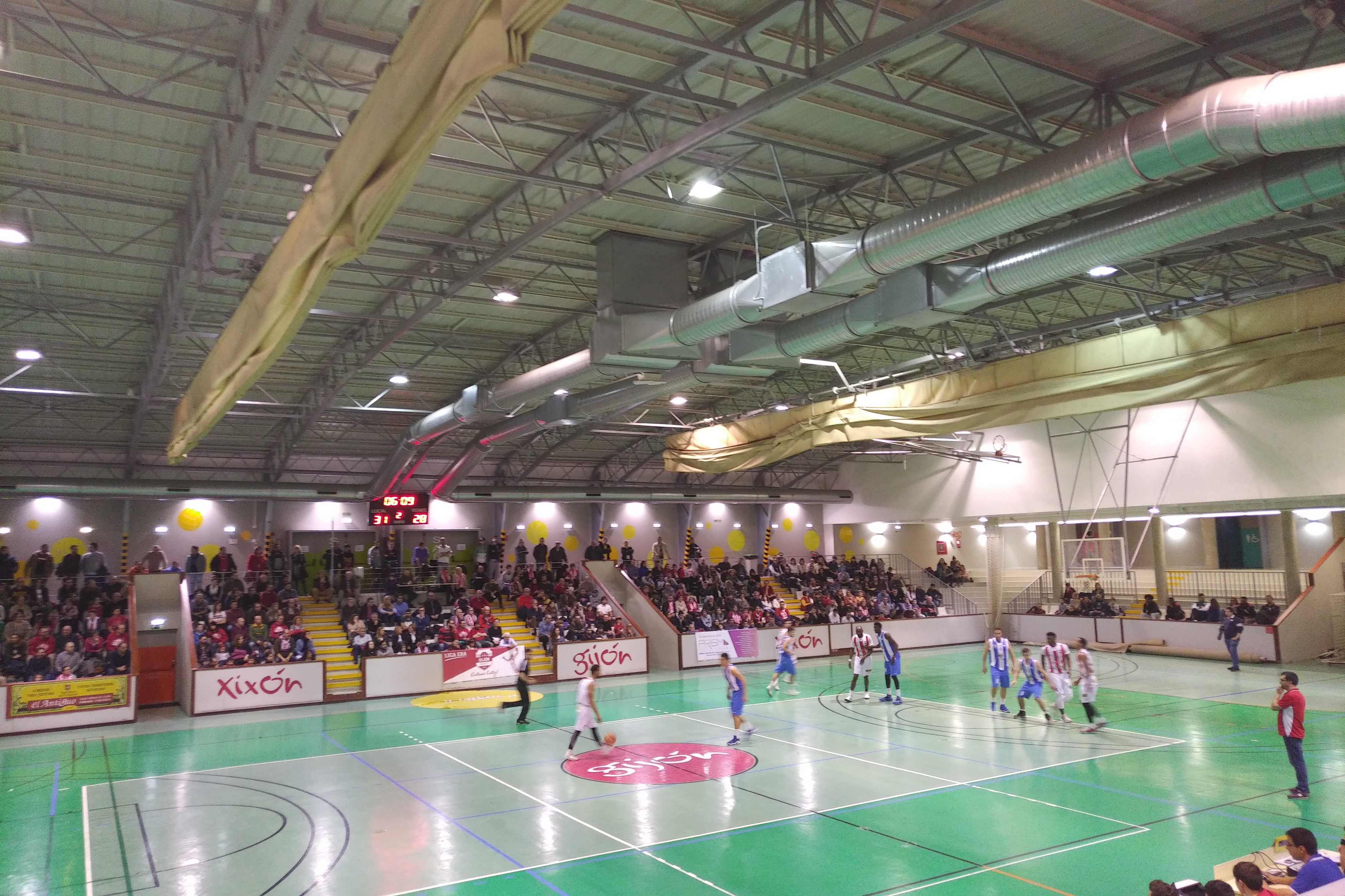 Basketball match between Gijón Basket and CB Ciudad de Ponferrada.